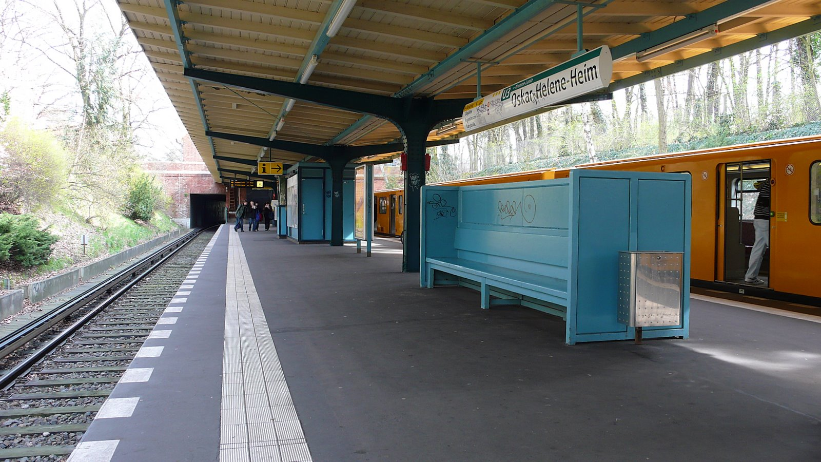 Subway Oskar Helene Heim